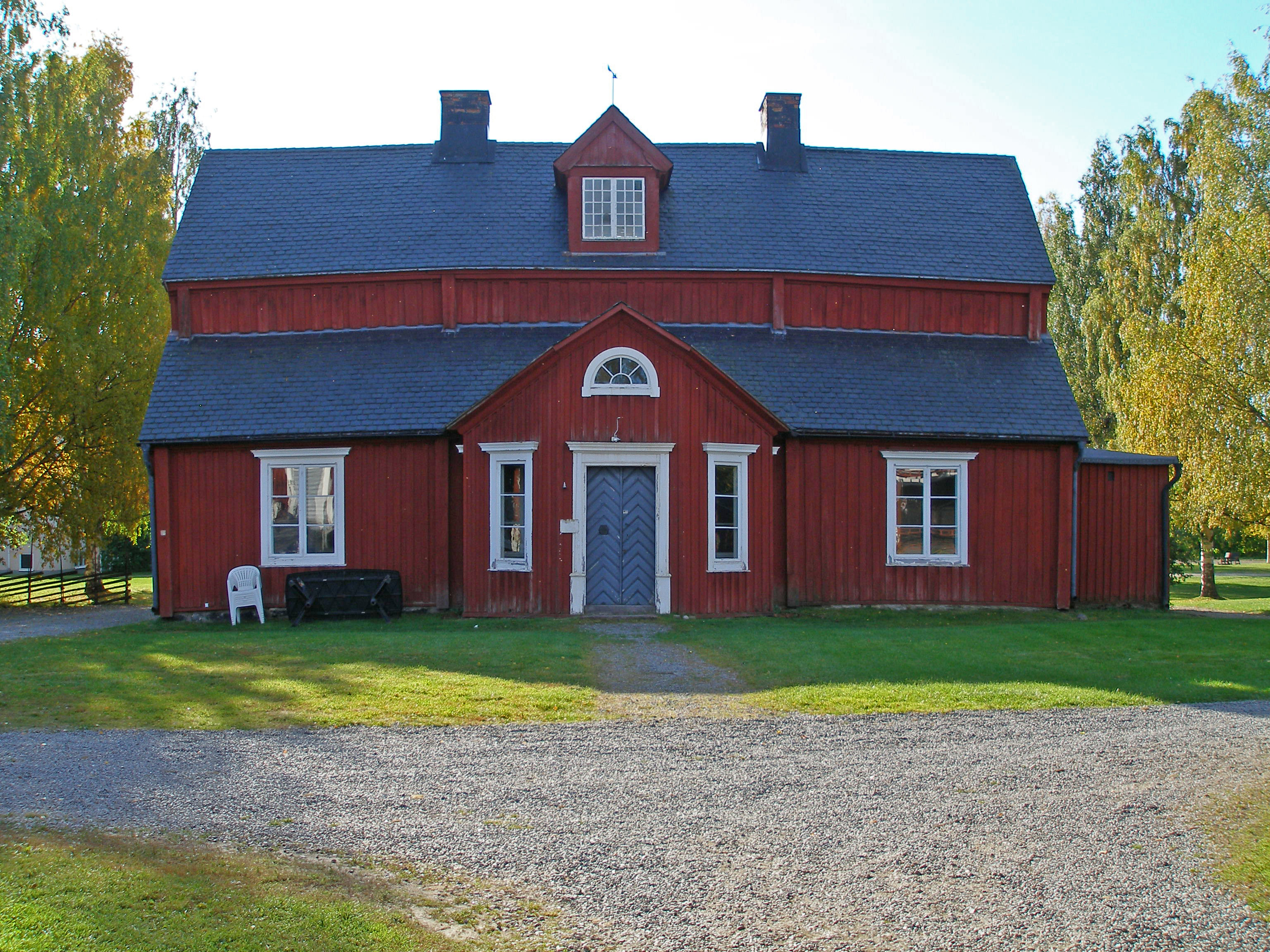 Nyborg at Nordanå area in Skellefteå, Sweden.